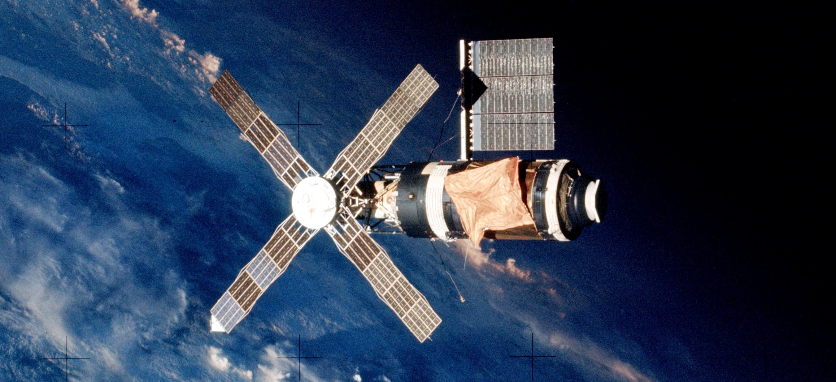 As the crew of Skylab 2 departs, the gold sun shield covers the main portion of the space station. The solar array at the top was the one freed during a spacewalk. The four, windmill-like solar arrays are attached to the Apollo Telescope Mount used for solar astronomy.